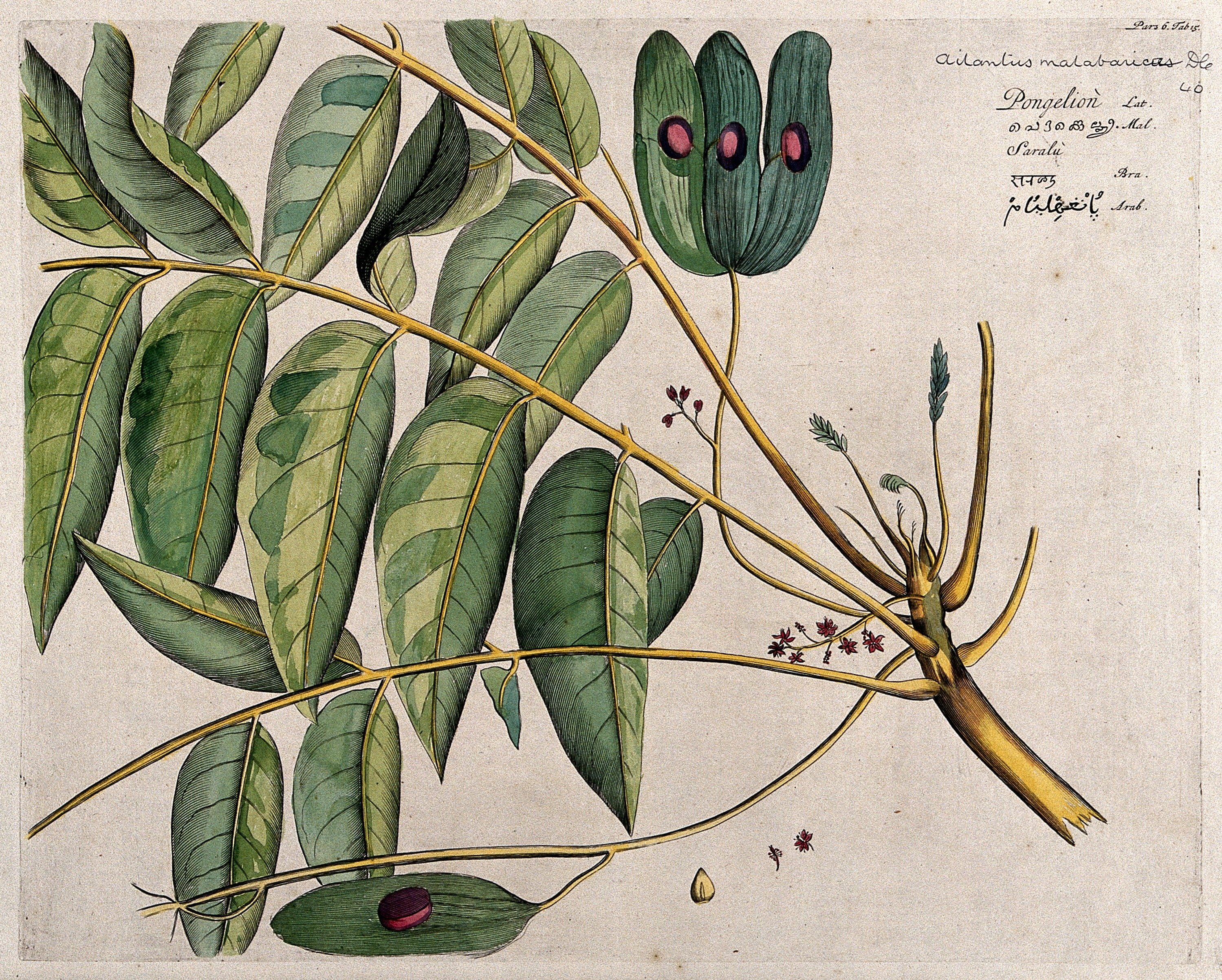 pongelion, perimaram, Rheede, Hortus Malabaricus, vol. 6:27-28, tab. 15 Mattipaul (Ailanthus malabarica DC.): branch with flowers and fruits, separate flowers and seed. Coloured line engraving. Iconographic Collections Keywords: engravings; medicinal plants - india; botany - pre-linnaean works; Ailanthus; Simaroubaceae; plants, useful - india; botany - india - malabar coast; Hendrik Adriaan van Reede tot Drakestein; scientific illustrations